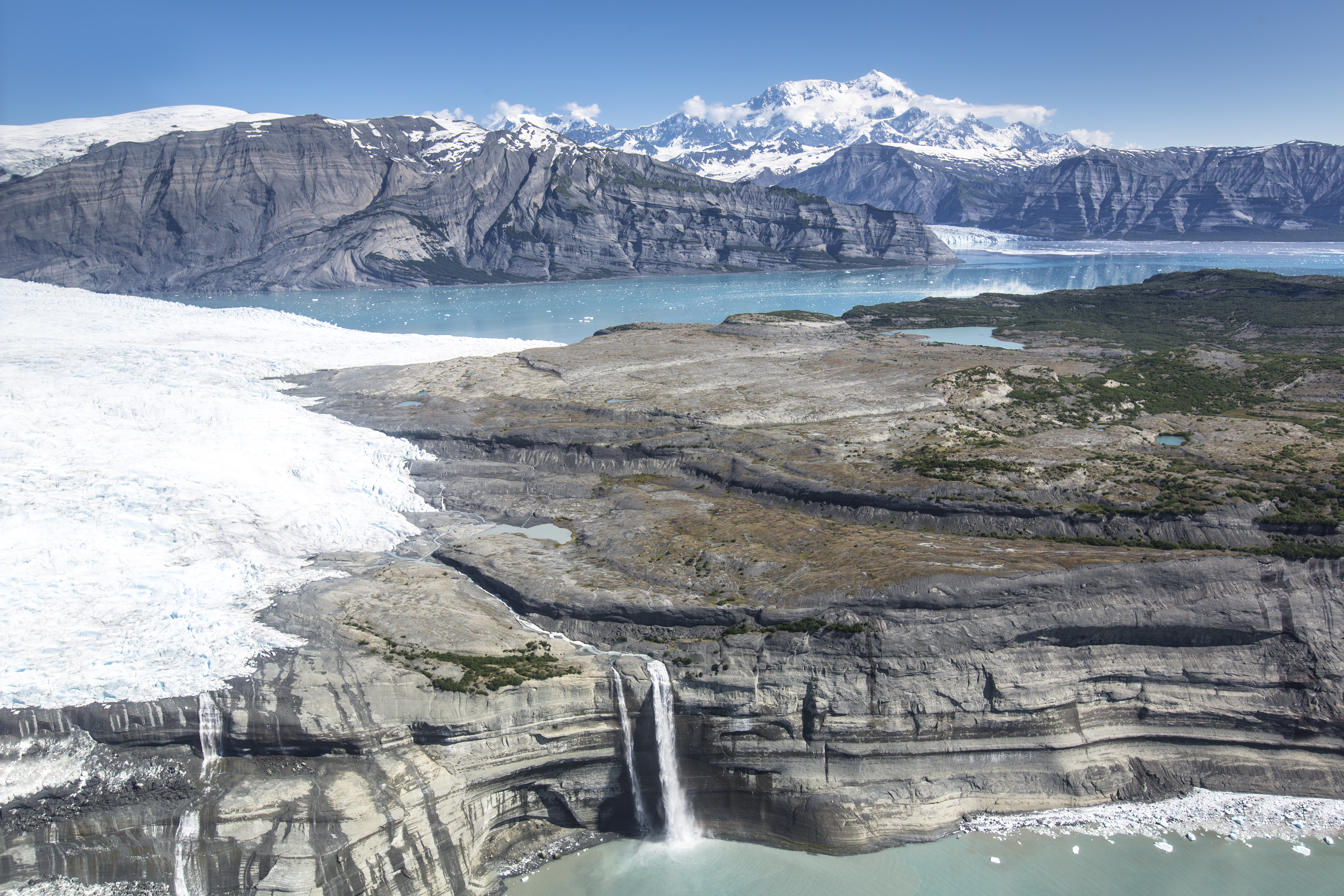 NPS / Jacob W. Frank Flight paths